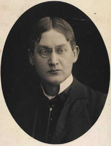 Sophus August Berthel Michaëlis (1865-1932), Danish writer